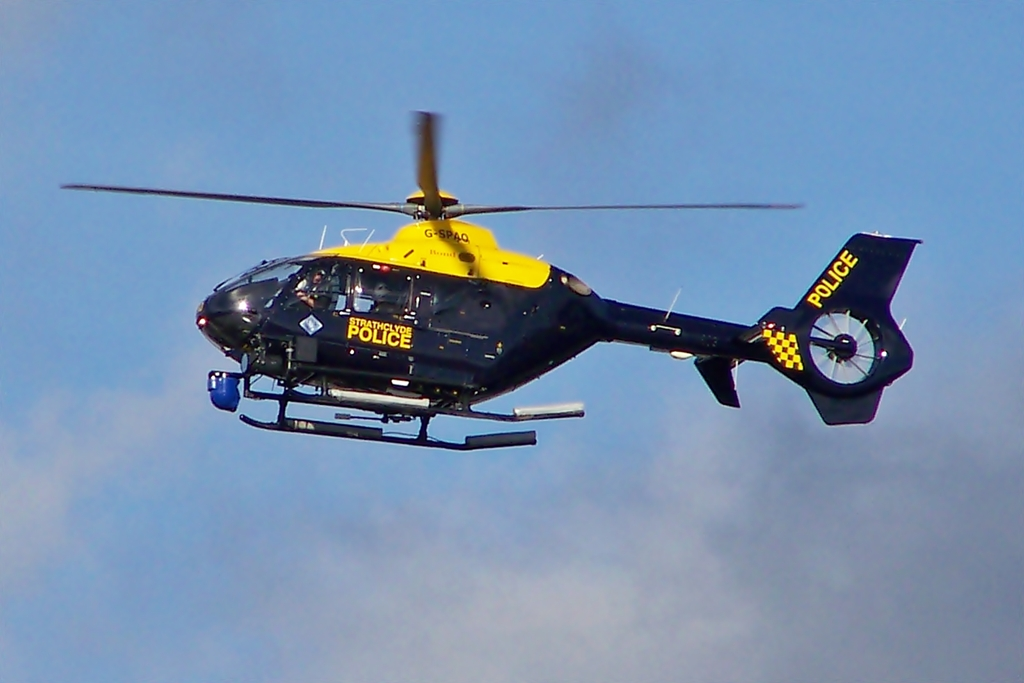 Strathclyde Police Eurocopter EC-135 G-SPAO